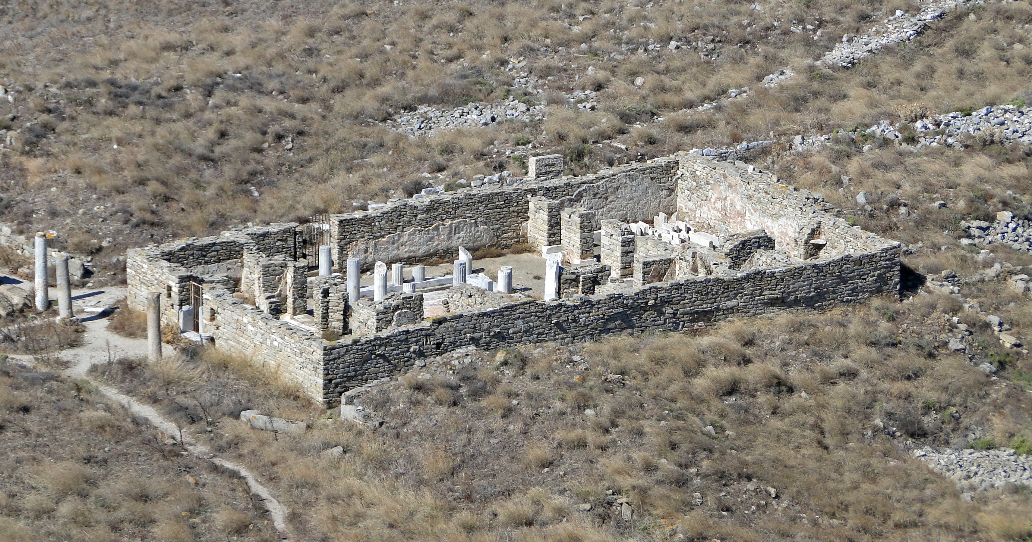 House of the Dolphins in Delos, Greece